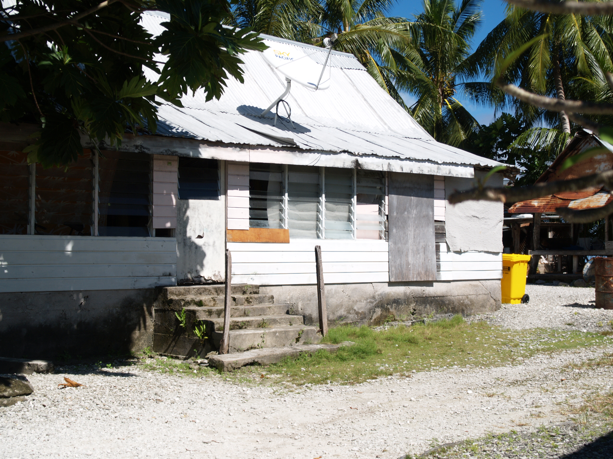 A satellite dish on a house on Nukunonu in Tokelau.